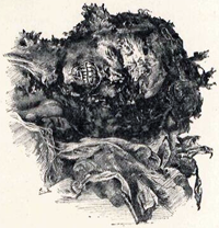 Mummified head of Seqenenre Tao